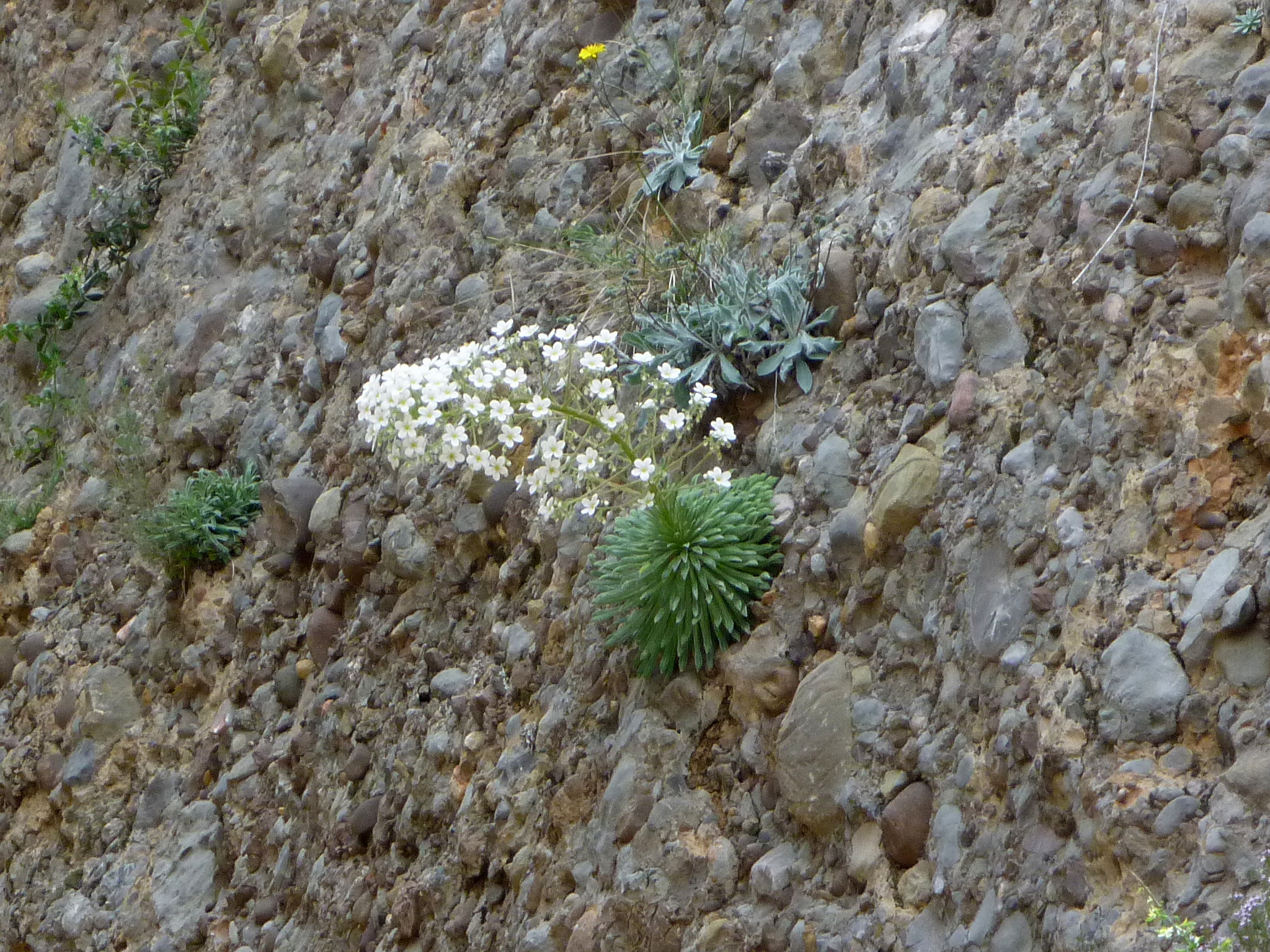 Saxifraga longifolia. In Guixers (Solsonès - Catalunya). To 1.080 m. altitude